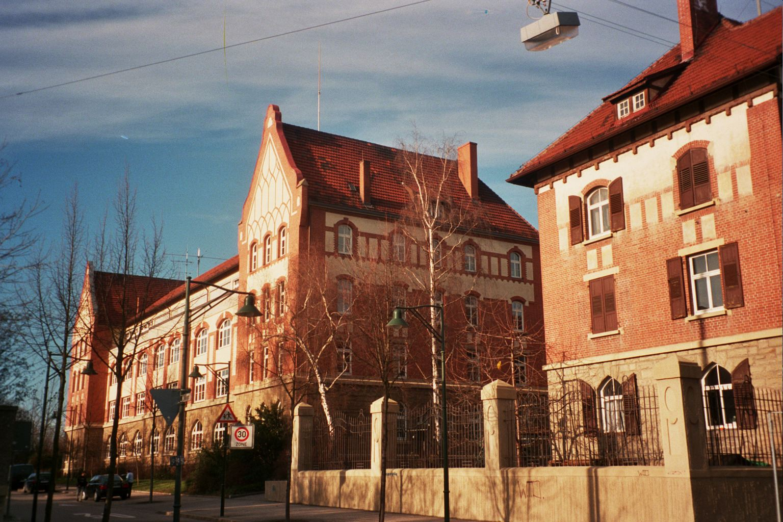 Germany, Ludwigsburg, Weststadt (west end), Osterholzschule/Olgakaserne (school, former caserne) ca. 2000